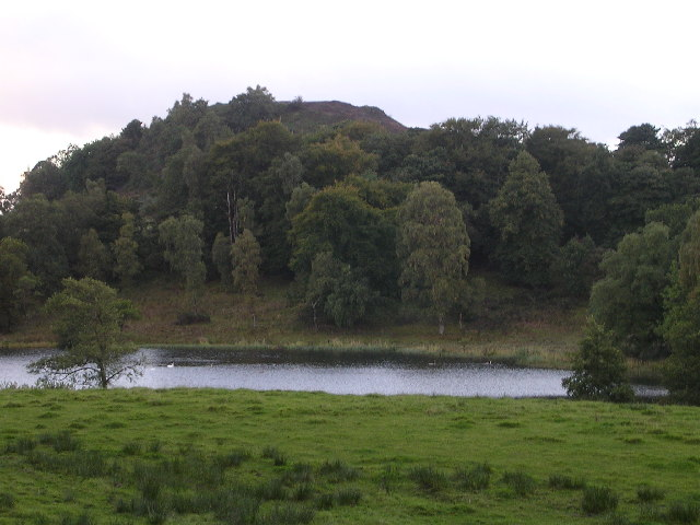 Loch Bowie. The small hill behind is Dumbowie